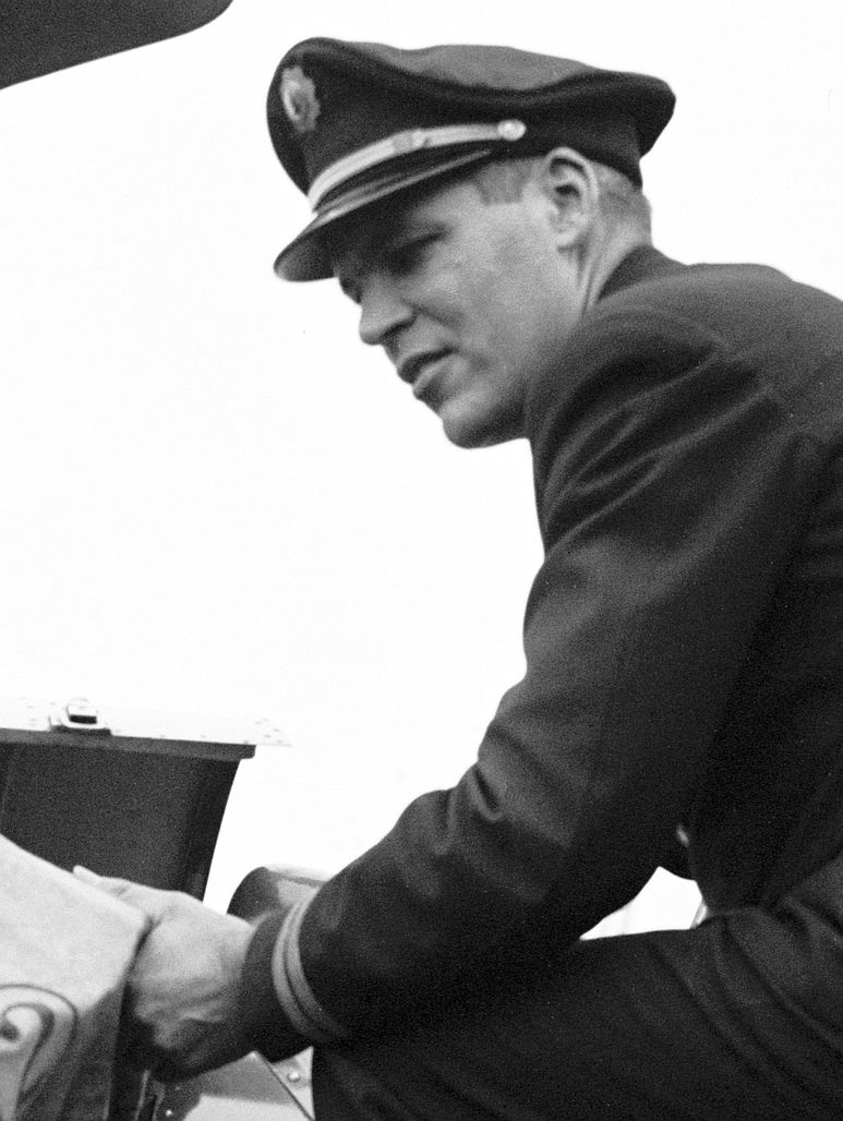 Title: Air mail Abstract/medium: 1 negative : glass ; 4 x 5 in. or smaller